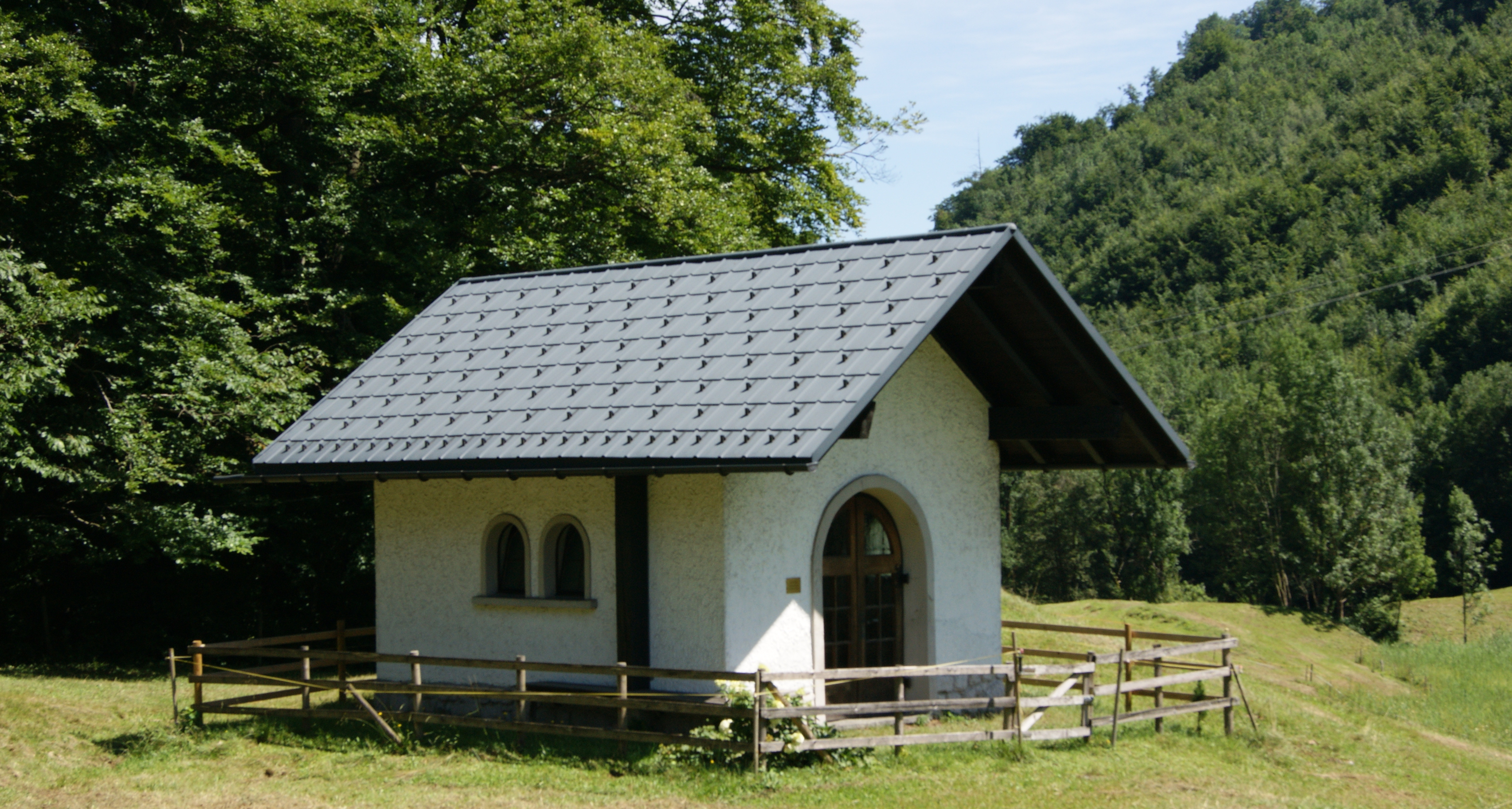 Chapel St. Mary in Buggenau, Hohenems, Vorarlberg, [Austria .